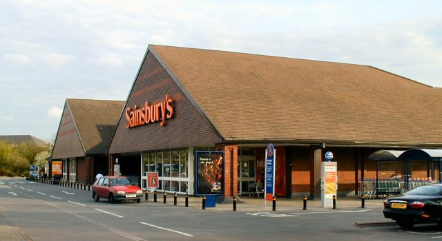 J. Sainsbury (Sainsbury's) supermarket, Chaddesden, Derby